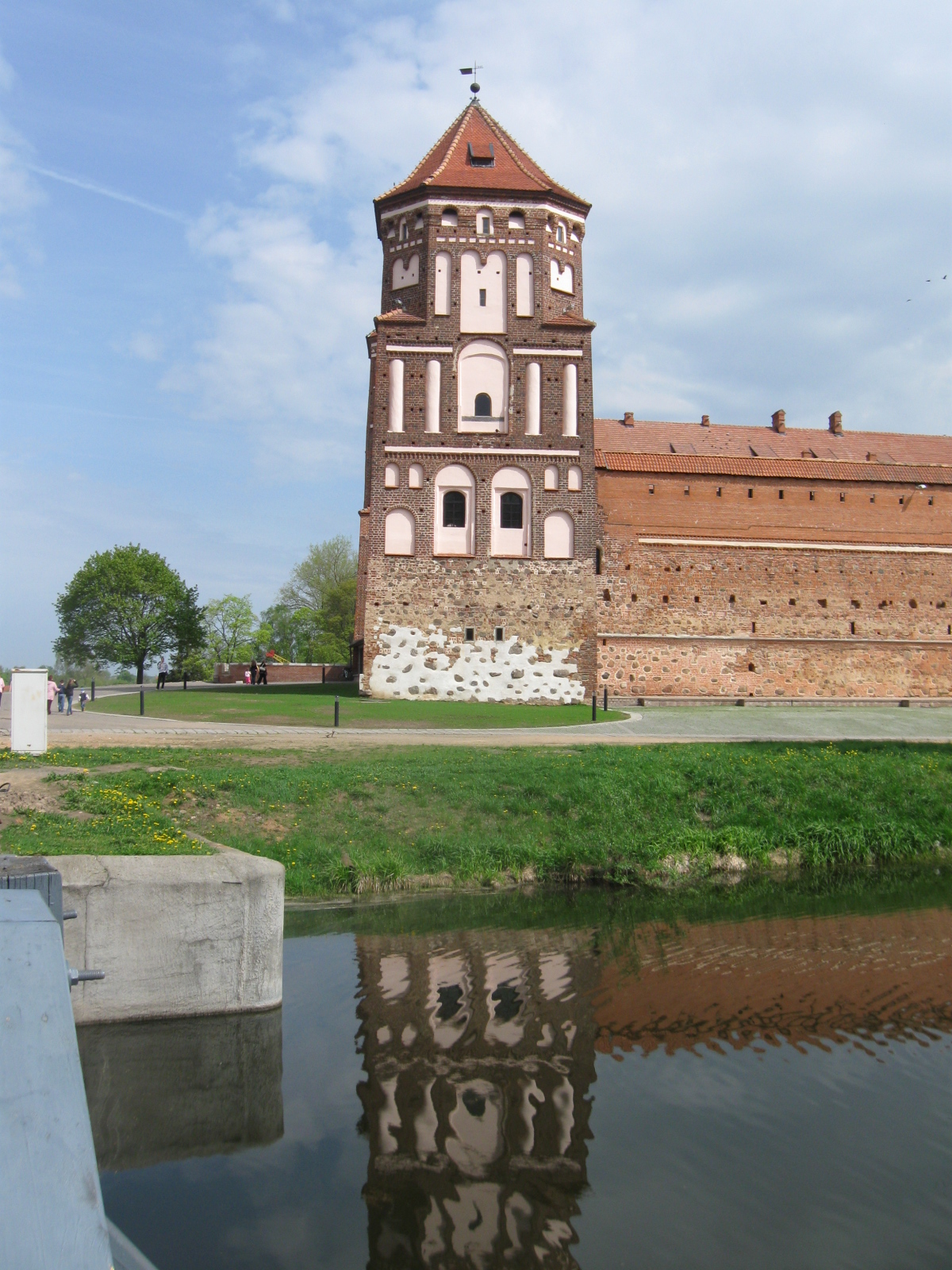 This is a photo of Belarusian heritage monument. Reference number: невядомы ( WLM)